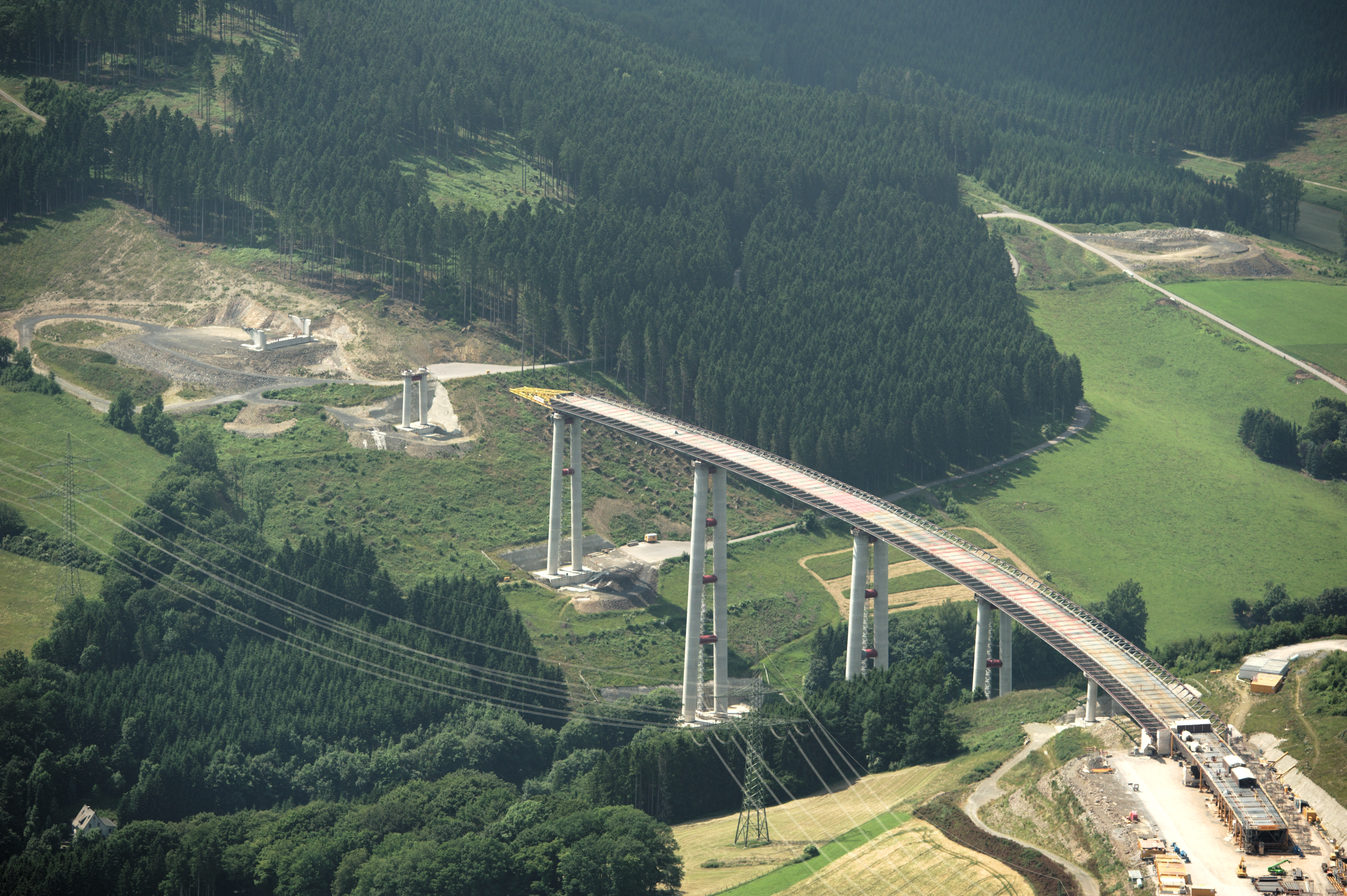 Fotoflug Sauerland-Ost – Talbrücke Nuttlar The making of this document was supported by the Community-Budget of Wikimedia Germany.